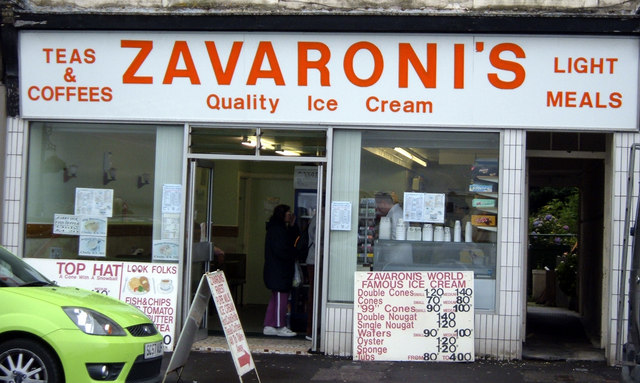 Zavaroni's Cafe, Rothesay Lena Zavaroni, the singer who tragically died recently, was a member of the family.